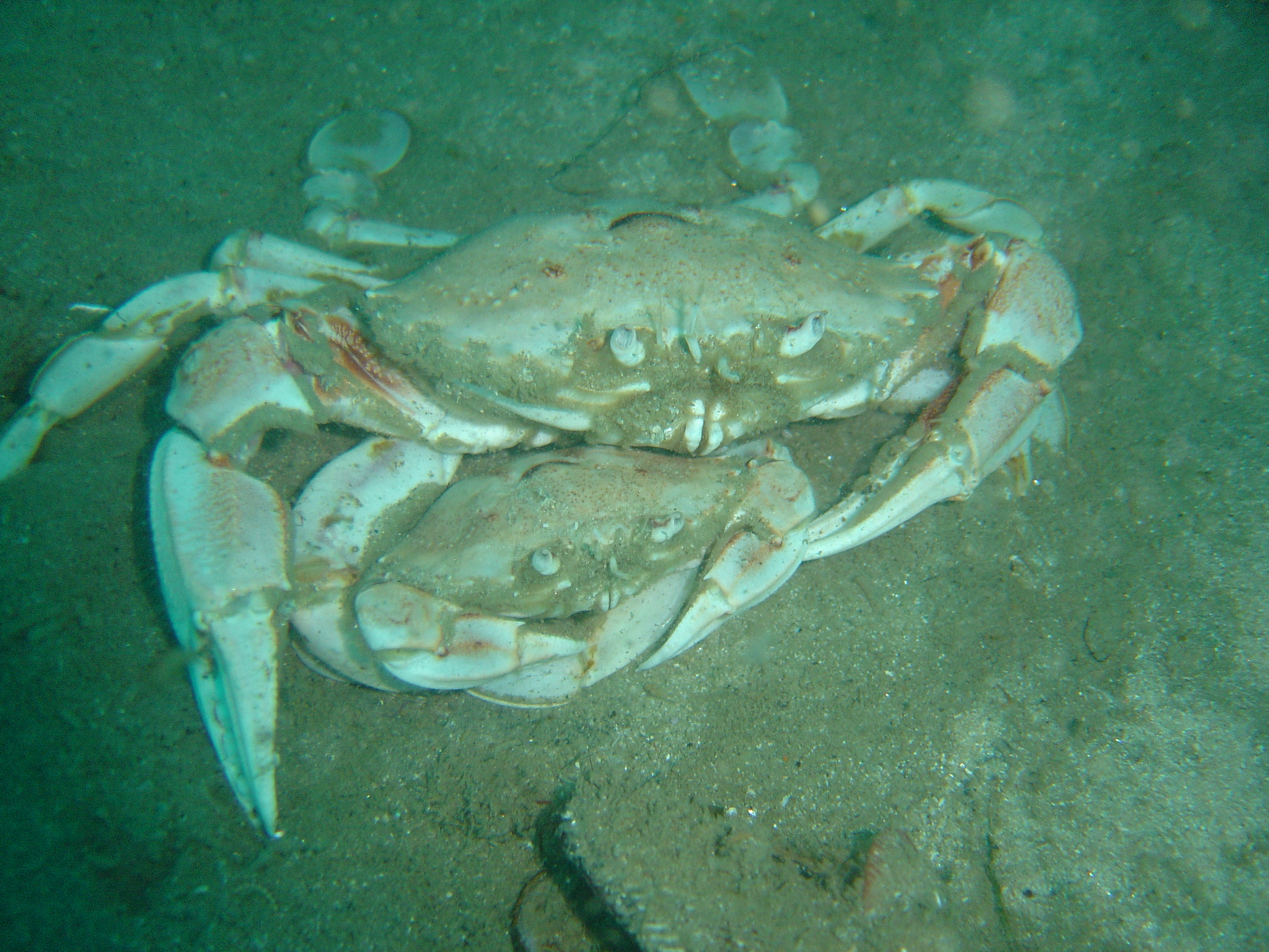 Hout Bay, Cape Peninsula.